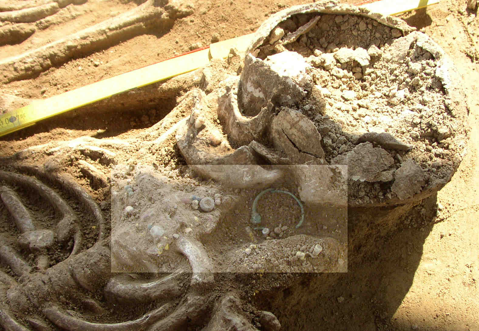 Jewellery of an girl at the Alamannic graveyard at Behans near Sasbach am Rhein, Germany. Around 6th and 7th century.